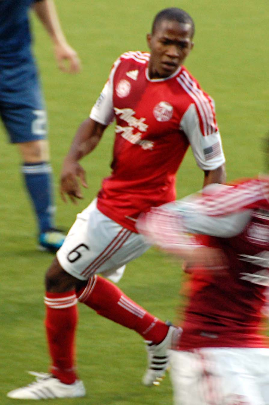 At Timbers vs Galaxy Reserve Match, Sept 1, 2011 This file has been extracted from another file: Darlington Nagbe Portland 2011.jpg